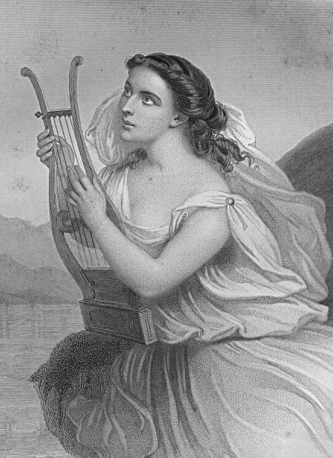 Imaginative portrait of Sappho in a 1883 engraving.